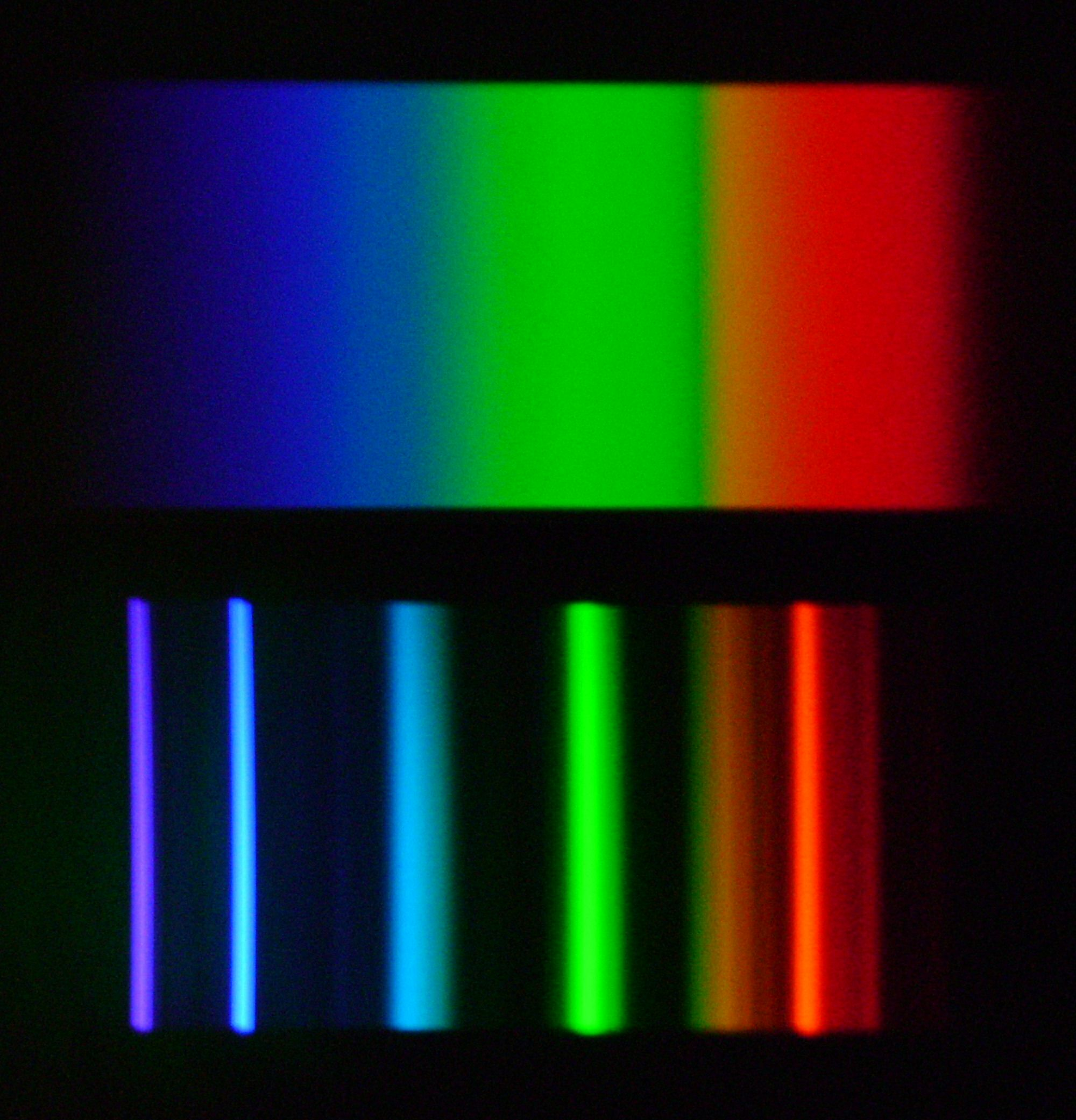 Shots through hand spectroscope: Continuous spectrum of 60W light bulb (similar to spectrum of sunlight) and thin scored line spectrum of equivalent 11W Energy-saving lamp (color components are missing, therefore under this light colors may look wrong)